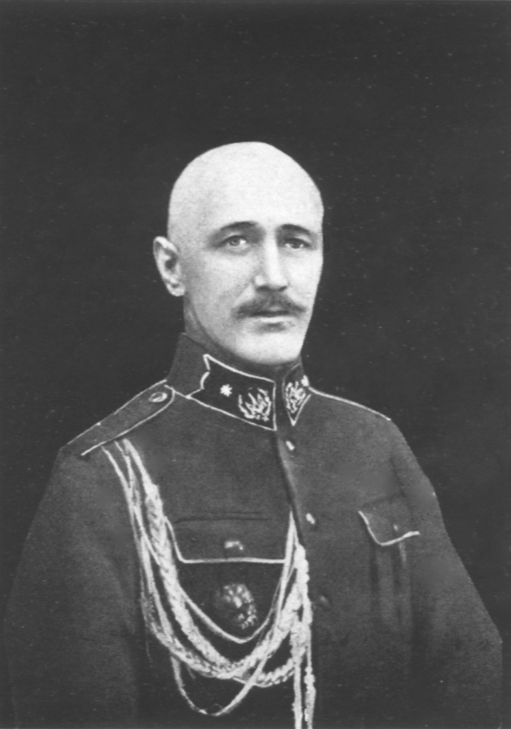 Vsevolod Petriv (1883-1948) - colonel of the Russian Imperial Army, General and Head of the Staff of the Ukrainian People's Republic army, publicist, historian, pedagogue. He is known as a military leader during the Ukrainian–Soviet War.